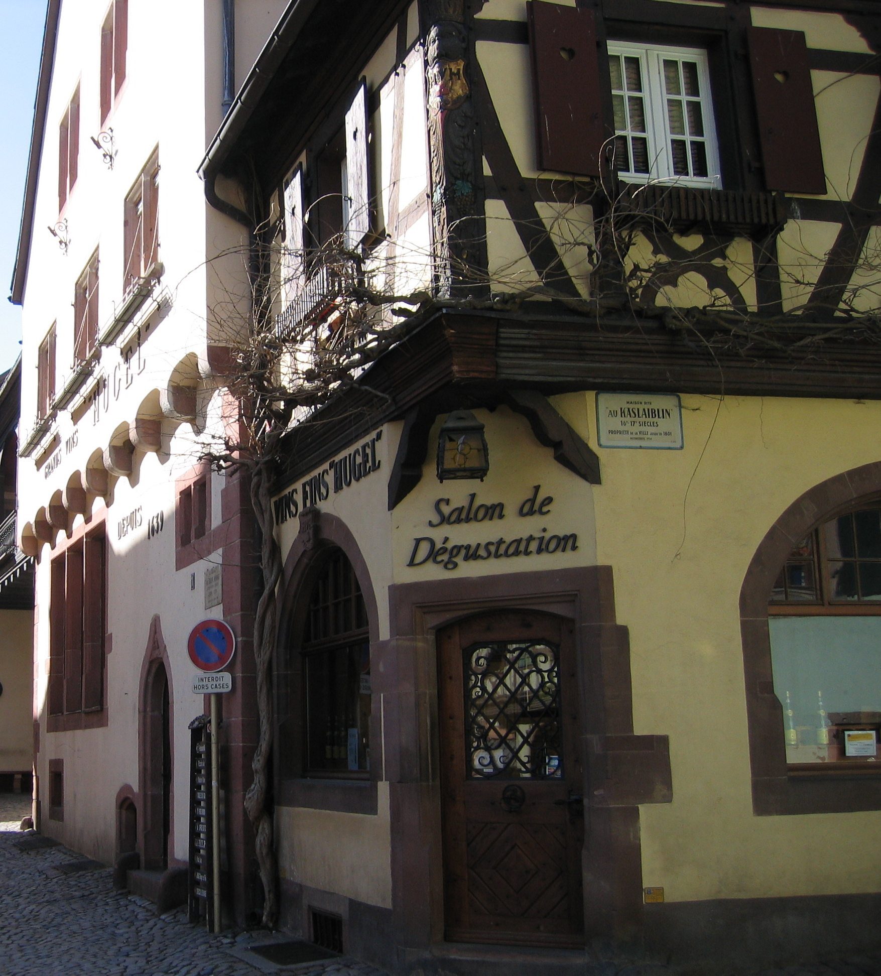 The street corner in Riquewihr, Alsace, where the shop and tasting room of the Hugel winery is located